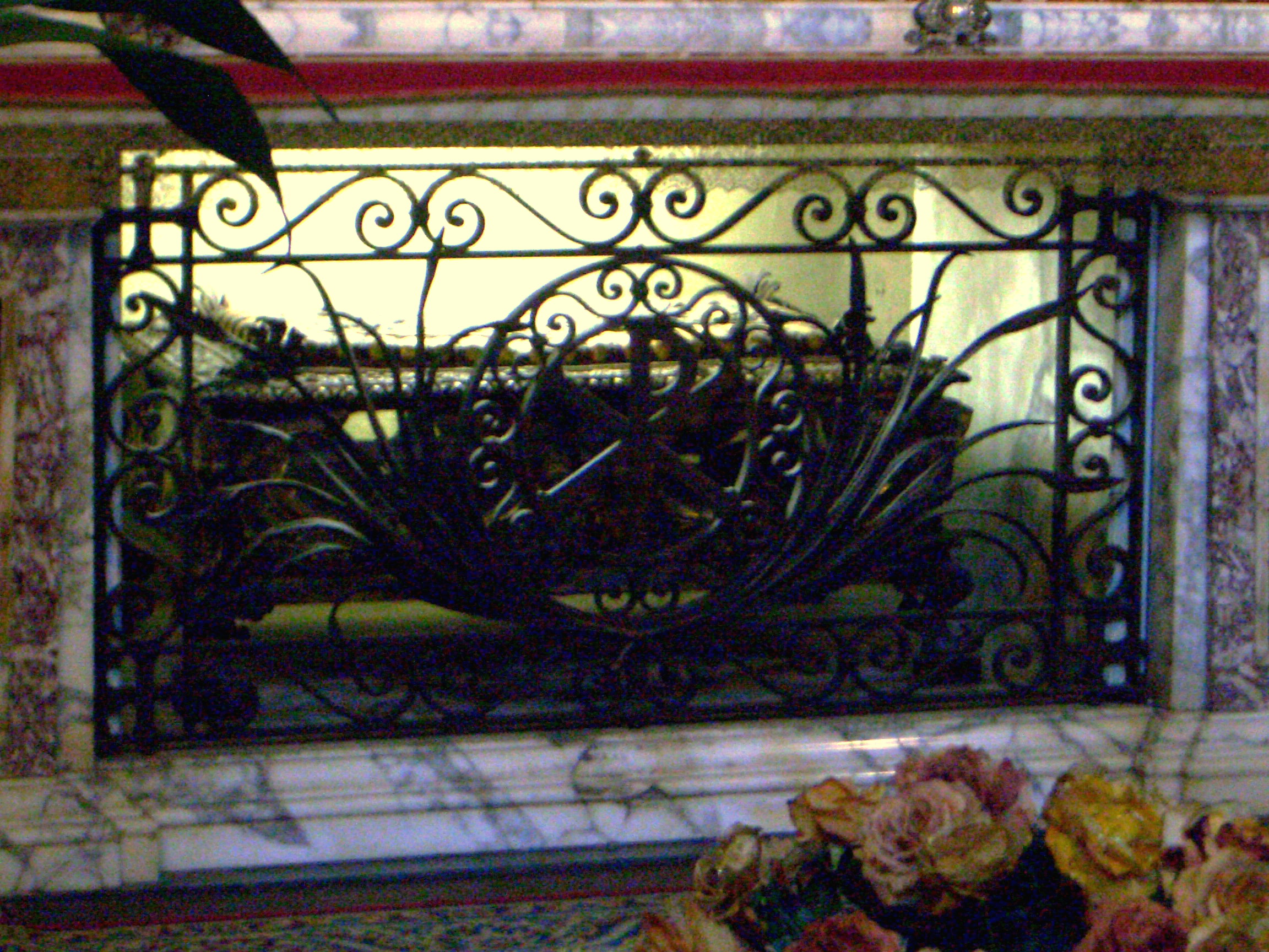 The shrine at San Lorenzo in Lucinain Rome containing the supposed gridiron used to grill Saint Lawrence to death.